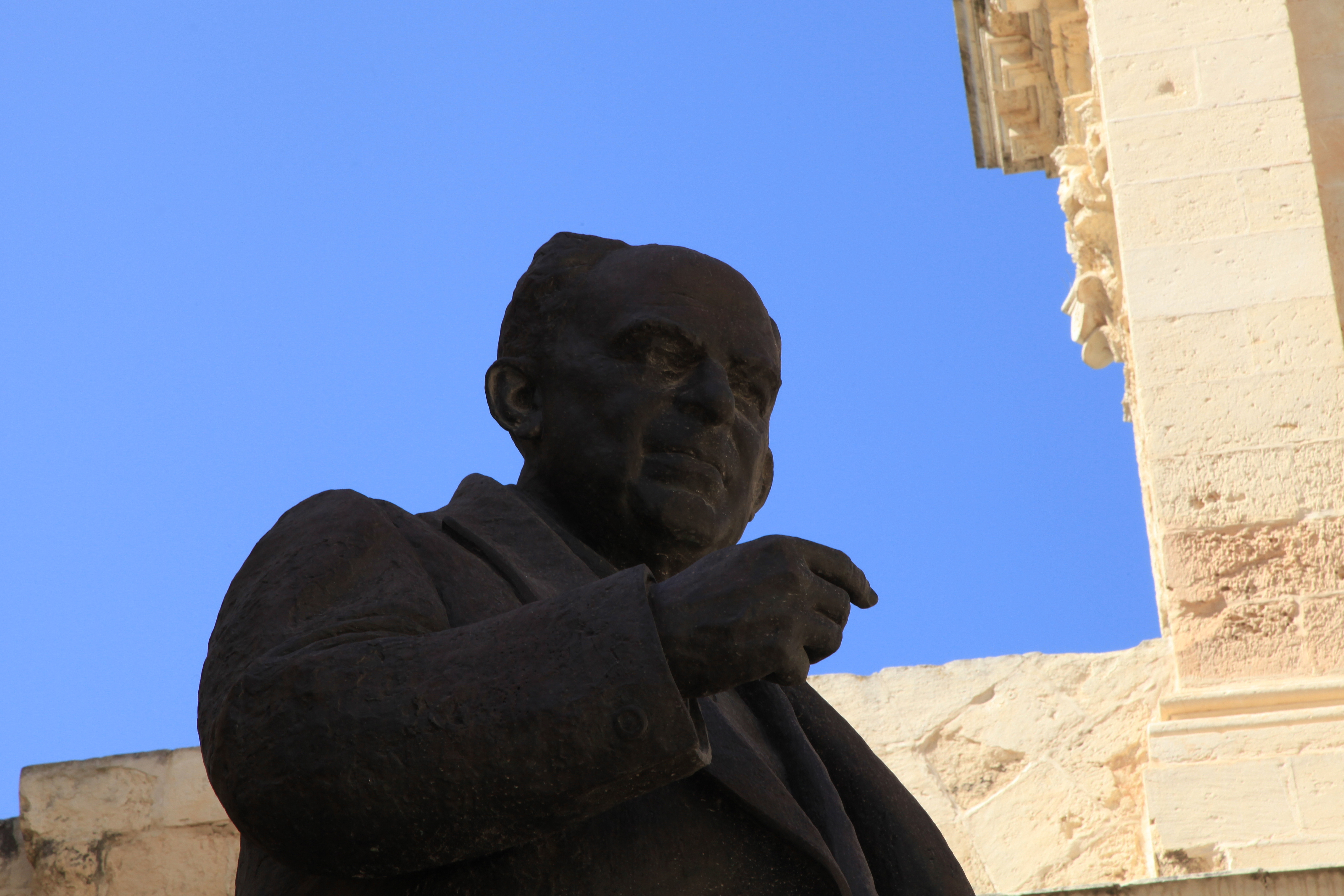 Monument to Paul Boffa, Triq Nofs-in-Nhar / Pjazza Kastilja in Valletta, Malta